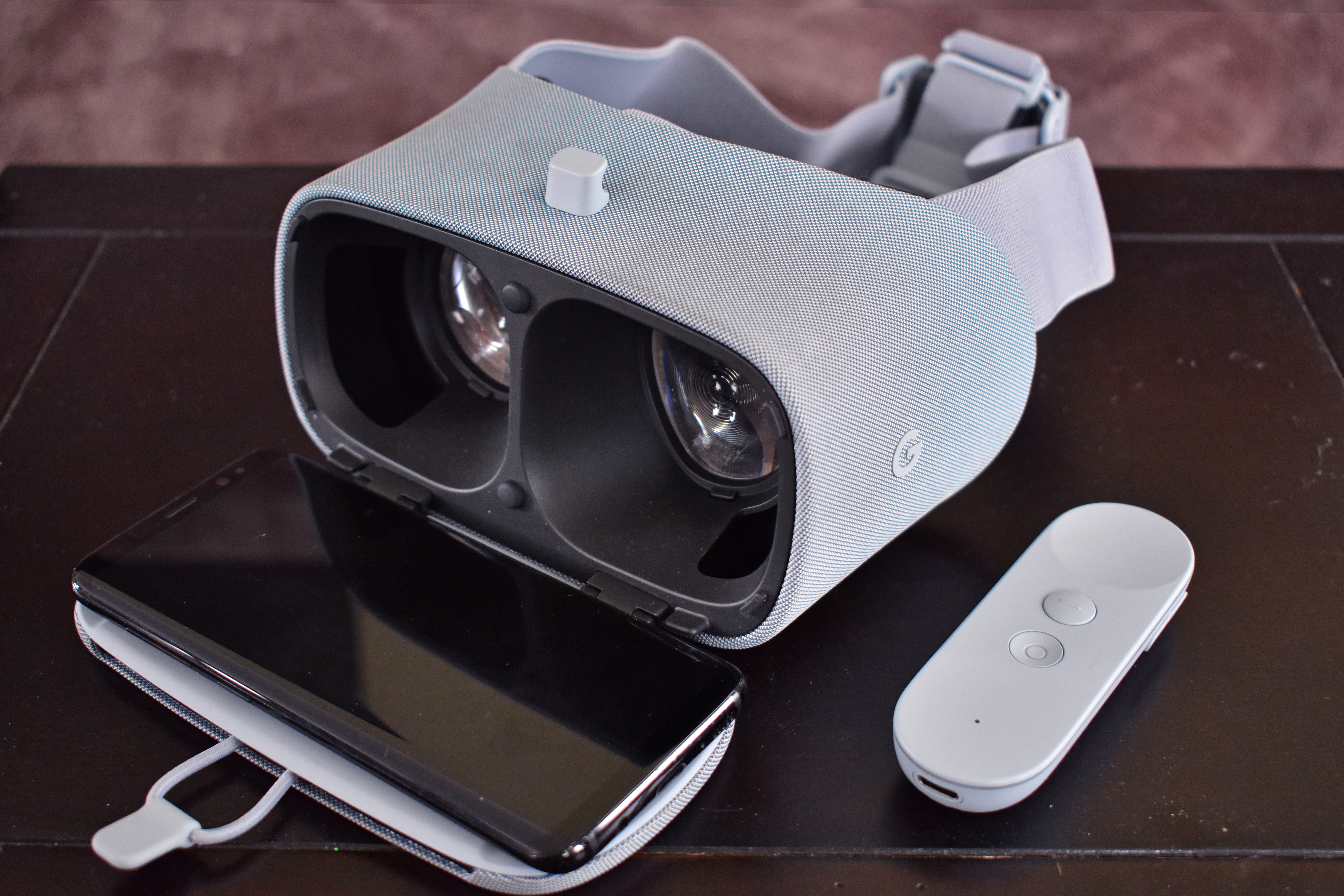 The second generation of the Google Daydream View virtual reality headset, opened with a Samsung Galaxy S8 inserted, and the controller beside it